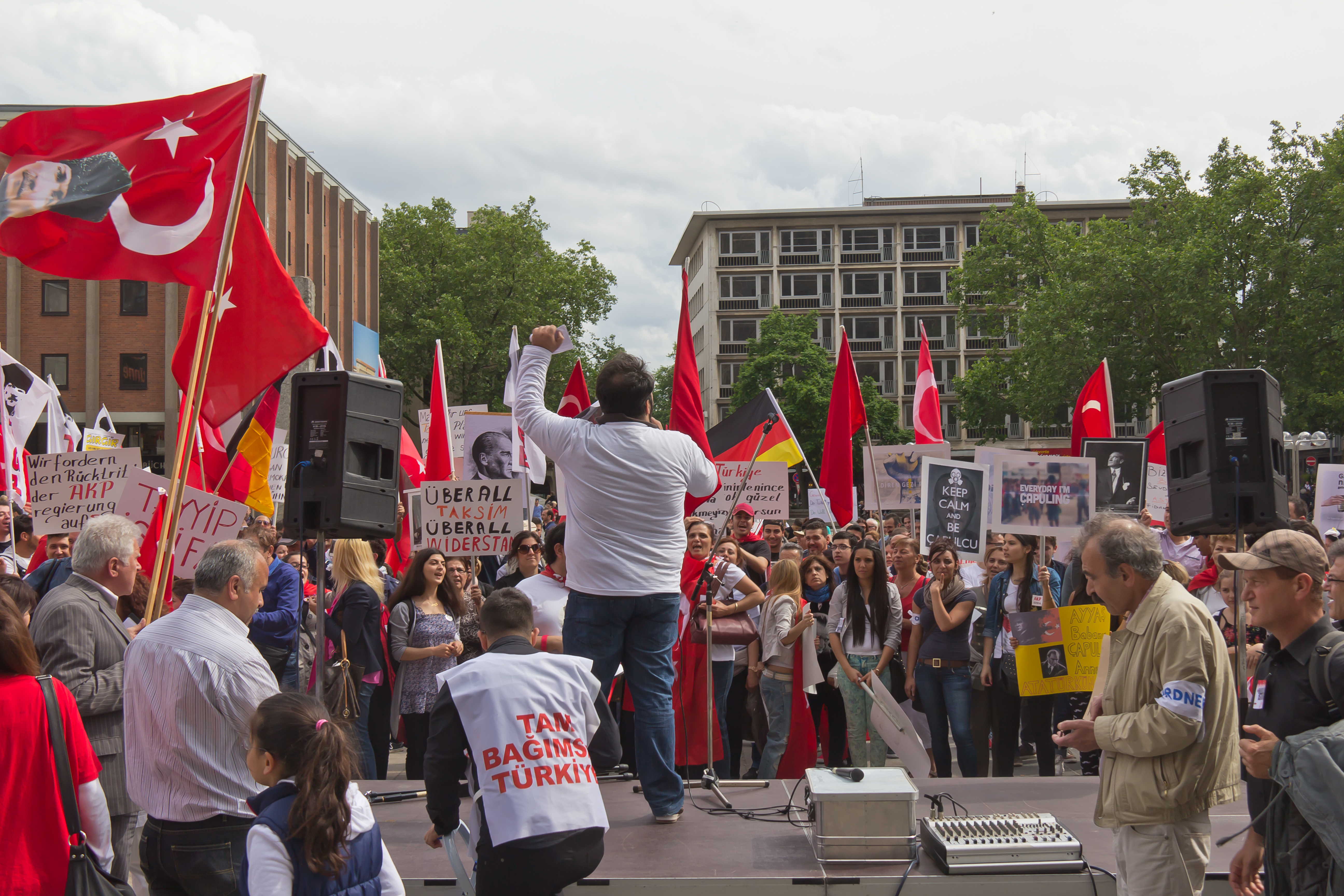 Taksim Gezi Park protests in Cologne